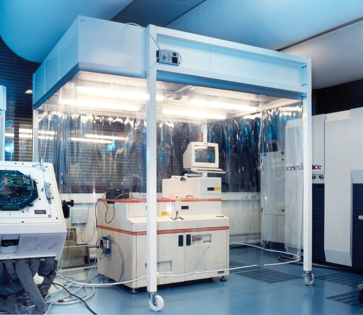 Cleanroom Cabin for high-precision measuring environment